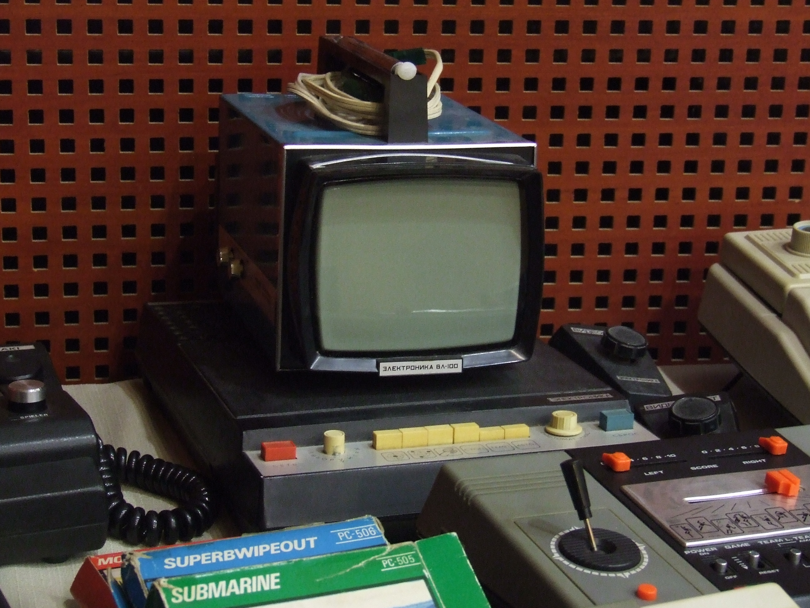 Russian Electronika Videosport Console with Elektronika VL100 TV set